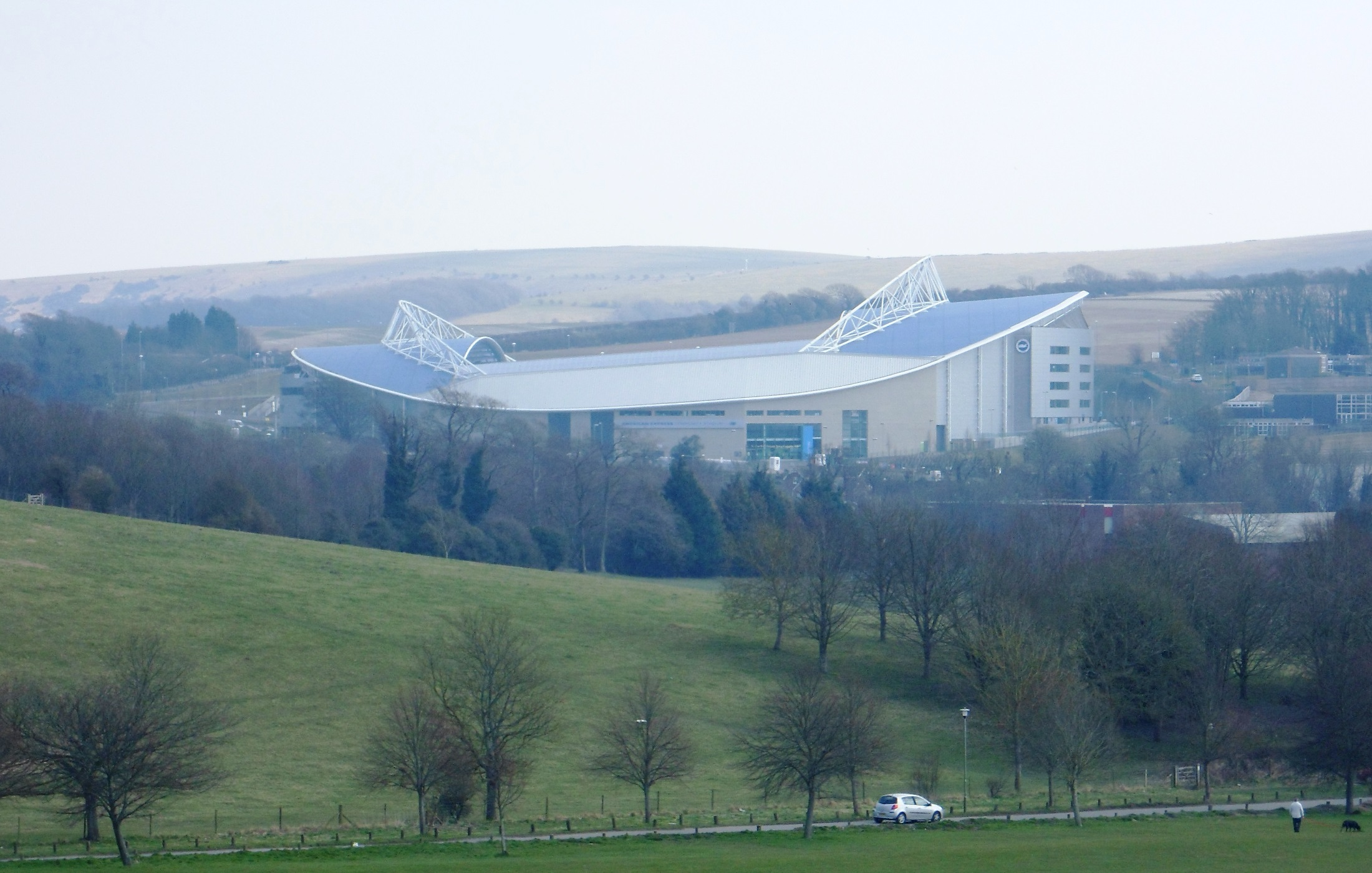 The Amex Community Stadium (Falmer Stadium) seen from Stanmer Park.